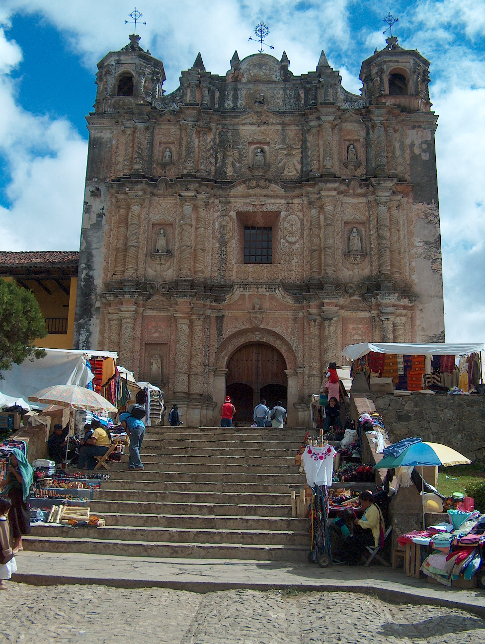 I took this photo and i give to wikicommons. The front entry of the Church of Santo Domingo de Guzman in San Cristobal de Las Casas.